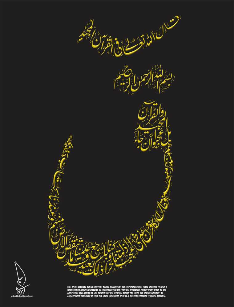 Surah Qaaf in Lahori Nastalique, Calligraphy by Aslam Kiratpuri